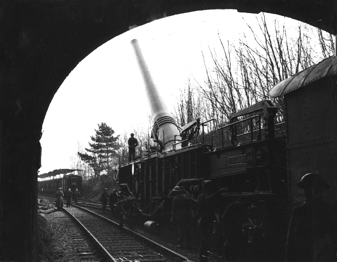 Photograph showing British BL 18 inch Howitzer Mk I mounted on railway carriage Boche Buster (which originally carried a 14 inch gun in WWI). Seen outside Bourne Park Tunnel, at Bishopsbourne in Kent, near the English South coast. The gun was used to cover possible invasion routes on the Kent coast. It had a relatively short range and could not fire across the channel. The gun was positioned there from early 1941 to early 1944. Boche Buster can be seen written on the left rear of the carriage. See Image:BocheBusterFrontOutsideBourneParkTunnel21March1941.jpg for the view from outside the tunnel. NOTE : A version artificially brightened to highlight details is here : Image:18inchRailwayHowitzerBocheBusterWWII-Brightened.jpg